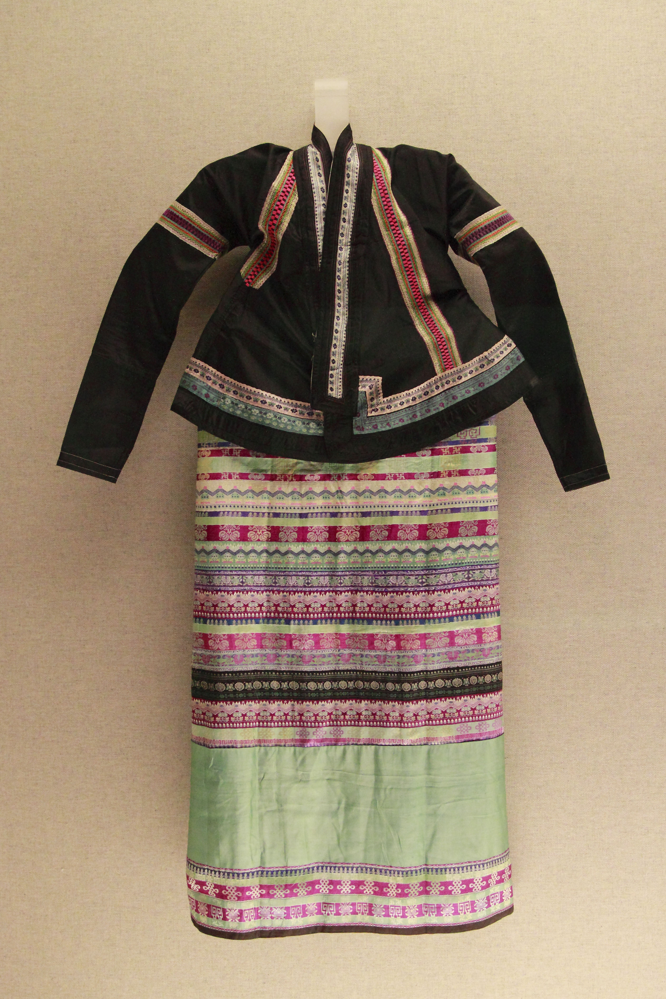 Women's ensemble of Dai, Xishuangbanna, Yunnan, the 1st half of the 20th century, a collection of Shanghai Museum